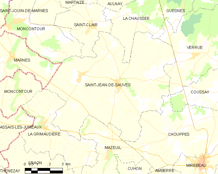 Map of French municipality Saint-Jean-de-Sauves